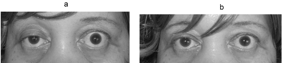 Photograph of the patient showing right partial ptosis. The left lid shows compensatory pseudo lid retraction because of equal innervation of the levator palpabrae superioris (Herring's law). b. Post tensilon test: Note the improvement in ptosis.